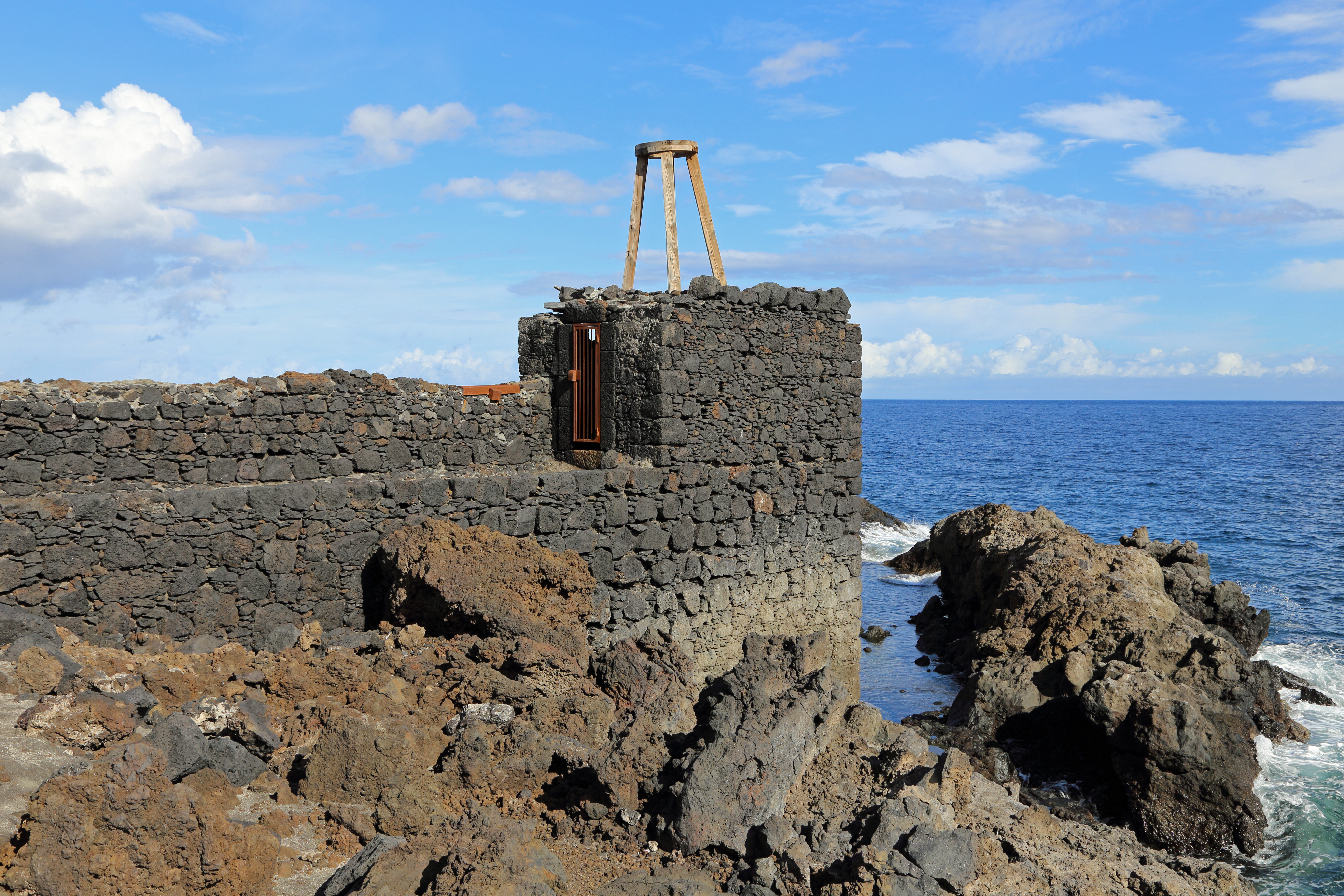 Los Cancajos (Breña Baja, La Palma, Canary Islands): the former salt pans, with remnants of an old pump mill for pumping sea water